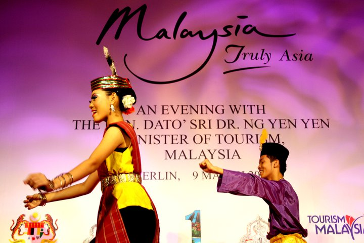 Malaysia at ITB Berlin 2011